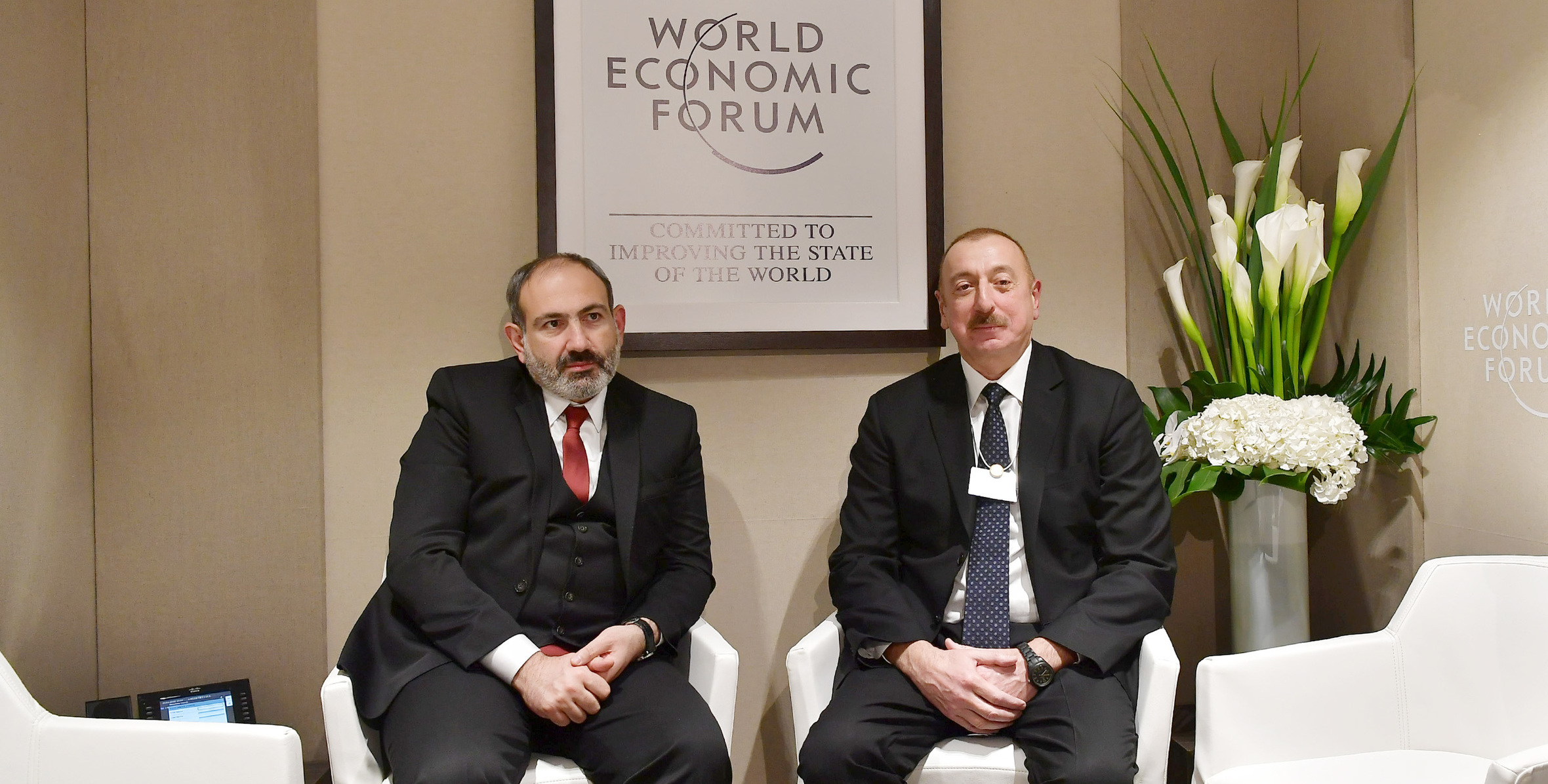 Ilham Aliyev and Armenian Prime Minister Niкol Pashinyan held informal meeting in Davos